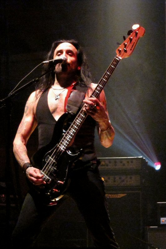 Marco Mendoza of Thin Lizzy at Aberdeen Music Hall January 6th 2011